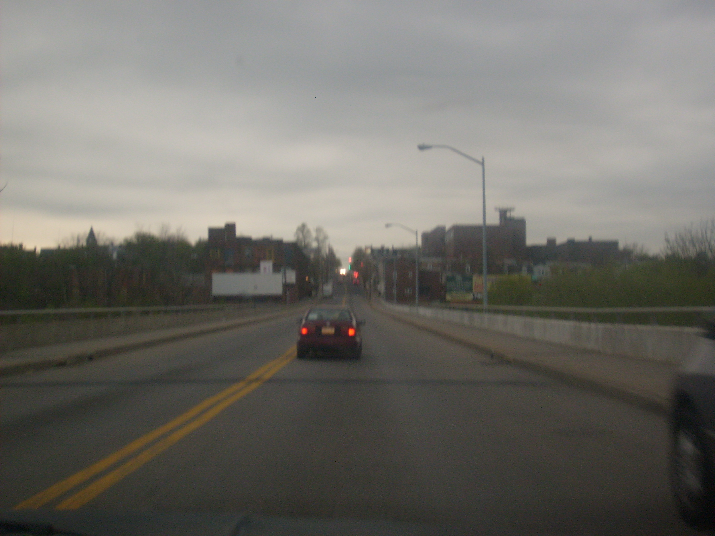 SR 1002 (Tilghman Street) bridge over Jordan Creek and American Parkway.